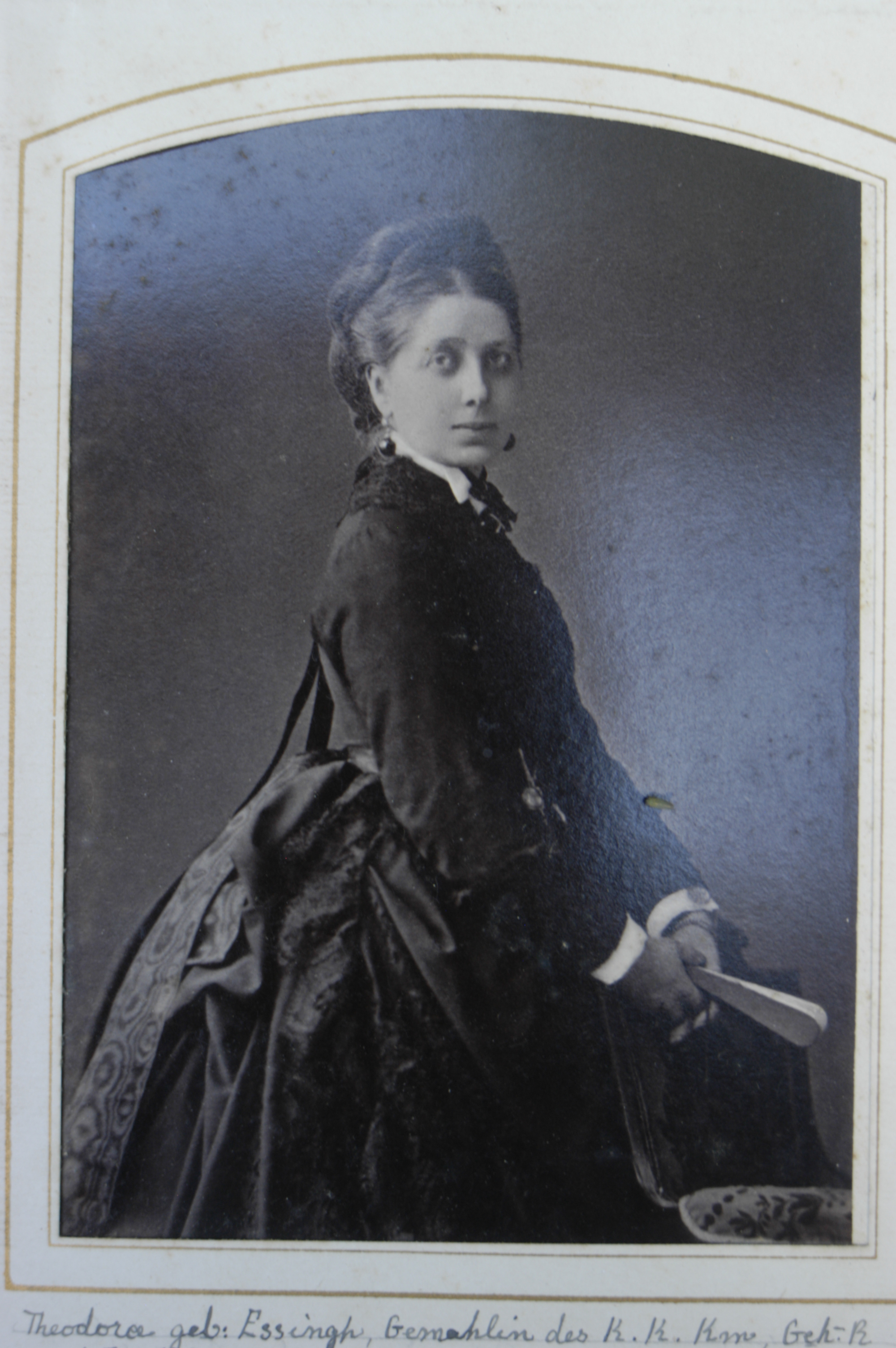 photo (by me, R. de Salis, Rodolph (talk) 12:57, 22 August 2015 (UTC)) of a photo of Theodora Wilhelmina Gottfrieda Hubertina Effingh.